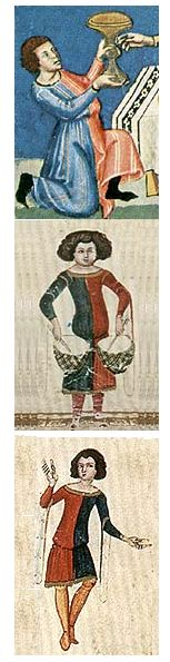 Medieval costumes in mi-parti